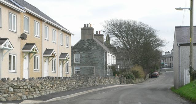 The Old & the New, Bodedern, Anglesey. A contrast of the new and the old, Llys Meddyg & Ty'n Llan, Bodedern, Anglesey. A memorial in the wall commemorates Hugh Owen Thomas.